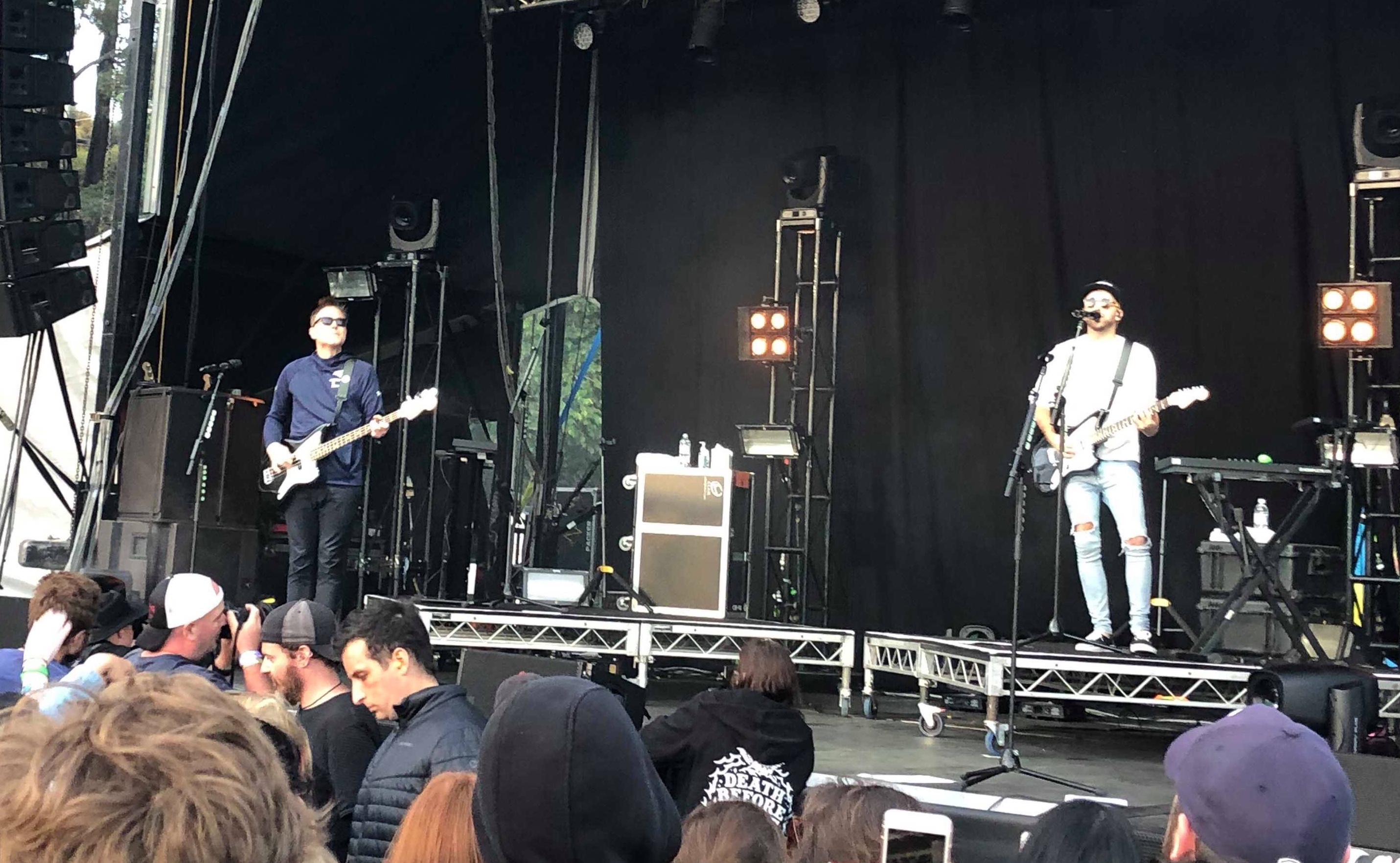 SImple Creatures (Mark Hoppus of Blink-182 and Alex Gaskarth of All Time Low) live at Good Things Festival 2019 at Melbourne, Australia (December 6, 2019).